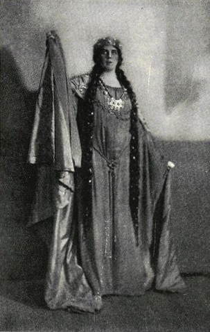 Swedish singer Ruth Whitefield acting as Lady Macbeth.